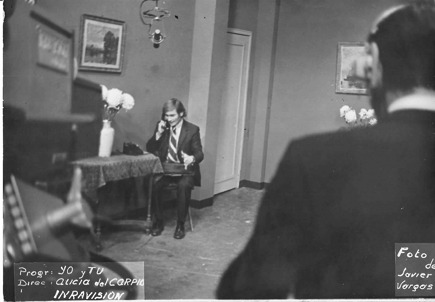 Hernando Casanova en su personaje de Hernando María de las Casas "El Culebro" en Yo y Tú